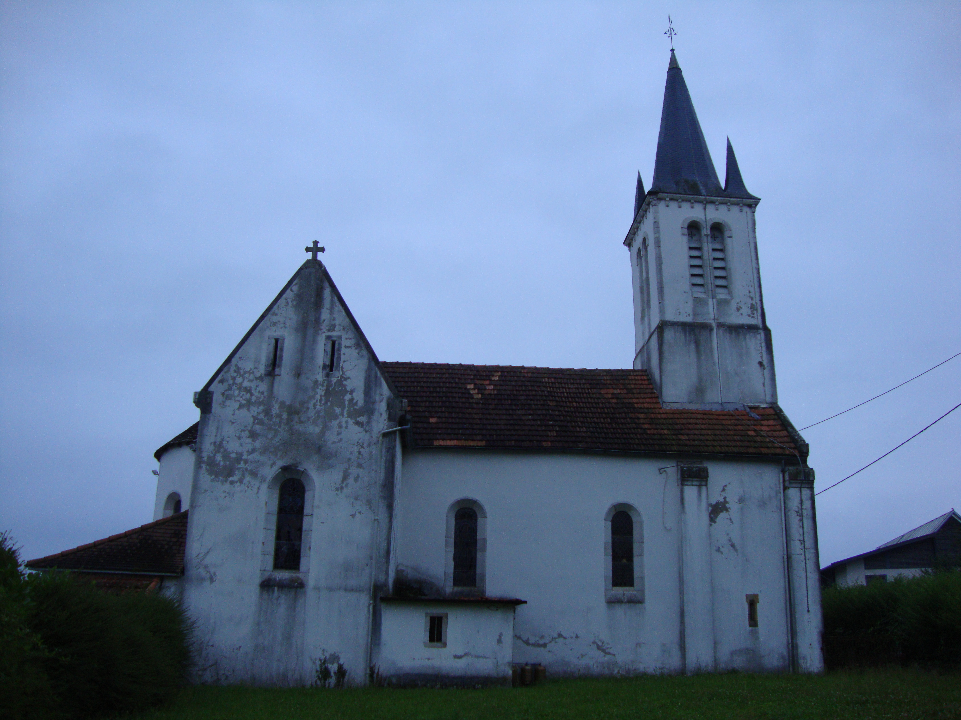 Aroue (Aroue-Ithorots-Olhaïbe, Pyr-Atl, Fr) the church in early morning light